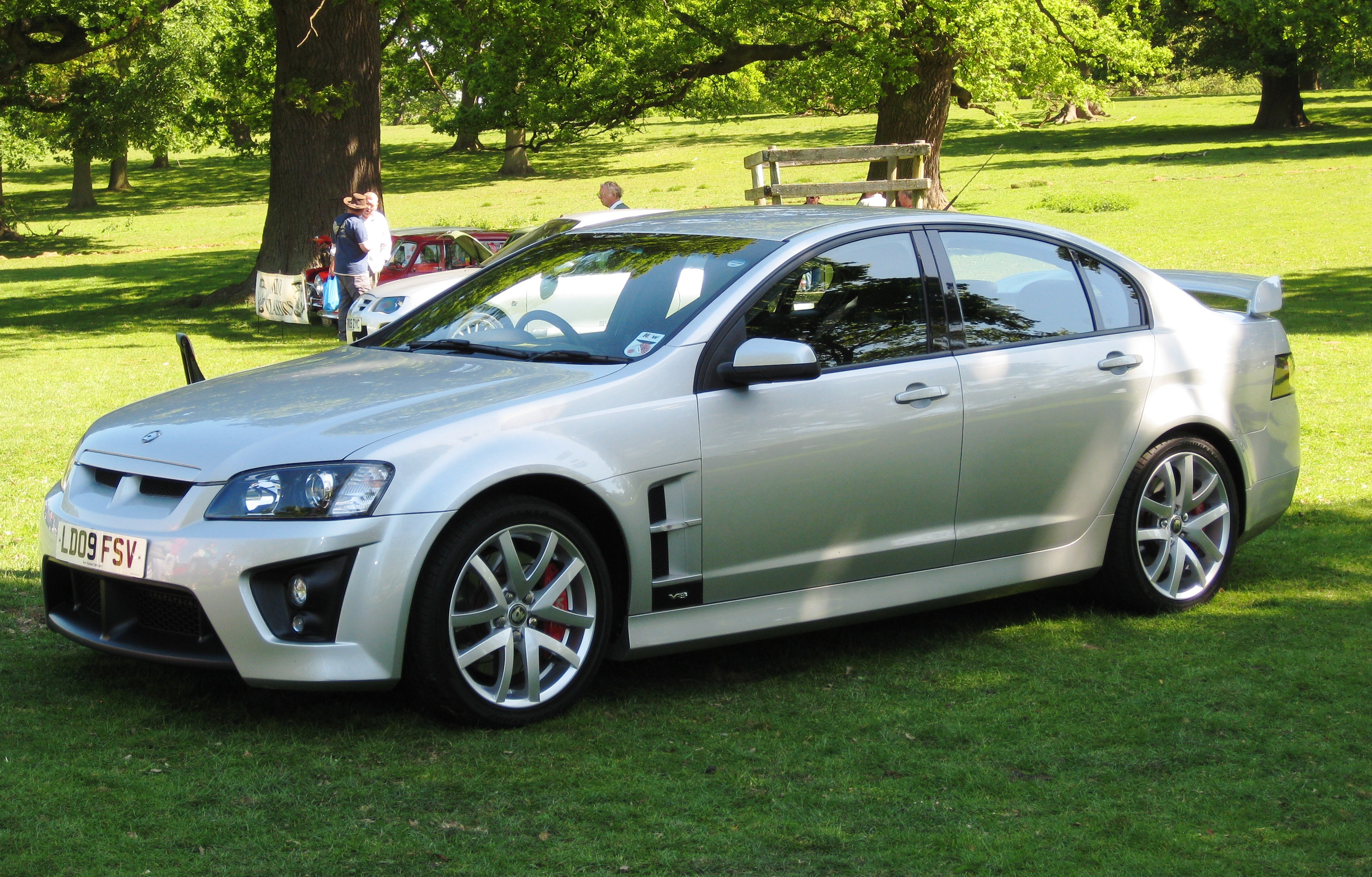 Vauxhall VXR8 at Woburn. Note: this example has been rebranded back to its original Australian market form with "HSV" badges.